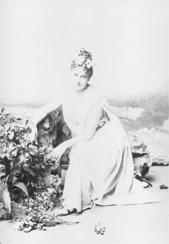 Adele Sandrock, german-dutch actress